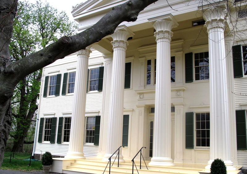 "This monumental Greek Revival style house has been generally recognized as one of the most important buildings of its type in the country. Its symmetrical massing, bold scale, and grandly austere detail are an extraordinary symbol of the increasing wealth and power of America during the decade of the 1830s. The house also reflects the importance of the Jay family in a maturing nation." -- Andrew Dolkart, architectural historian." It is one of three contiguous, pre-Civil War structures extant in their original landscapes on Boston Post Road. The veranda of the house overlooks a 10,000+ year old Paleo-Indian archaeological site and the oldest man-managed meadow on record in New York State. Jay Estate, 210 Boston Post Road, Rye, New York 10580